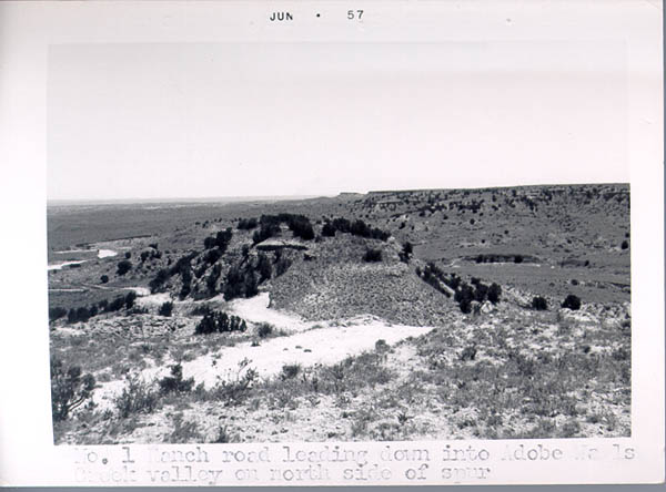 View of Adobe Walls battlefield.